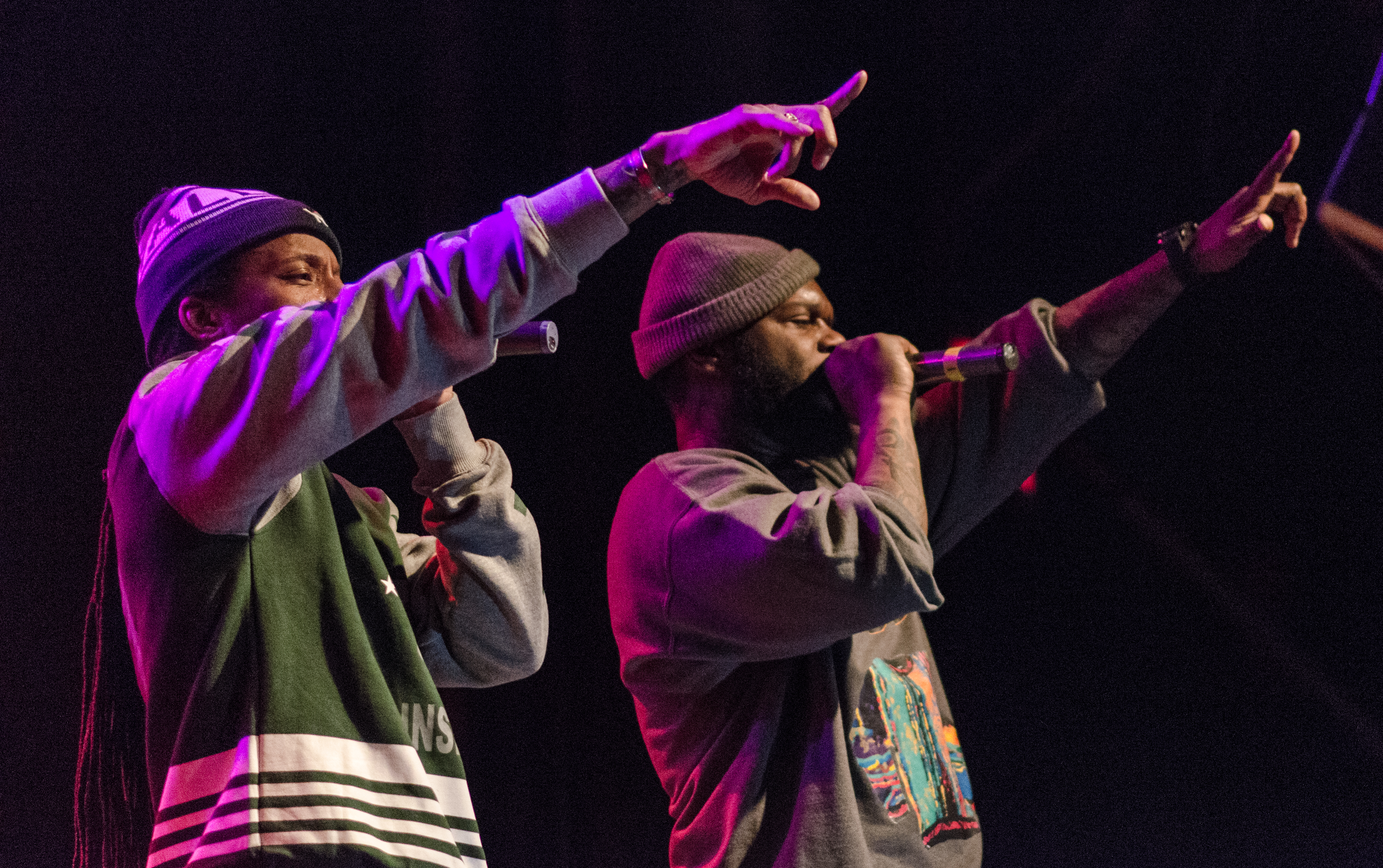 smif n wessun at phoenix concert theatre march 2015